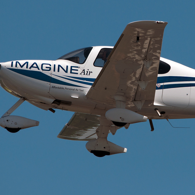 ImagineAir N103TQ departs PDK airport